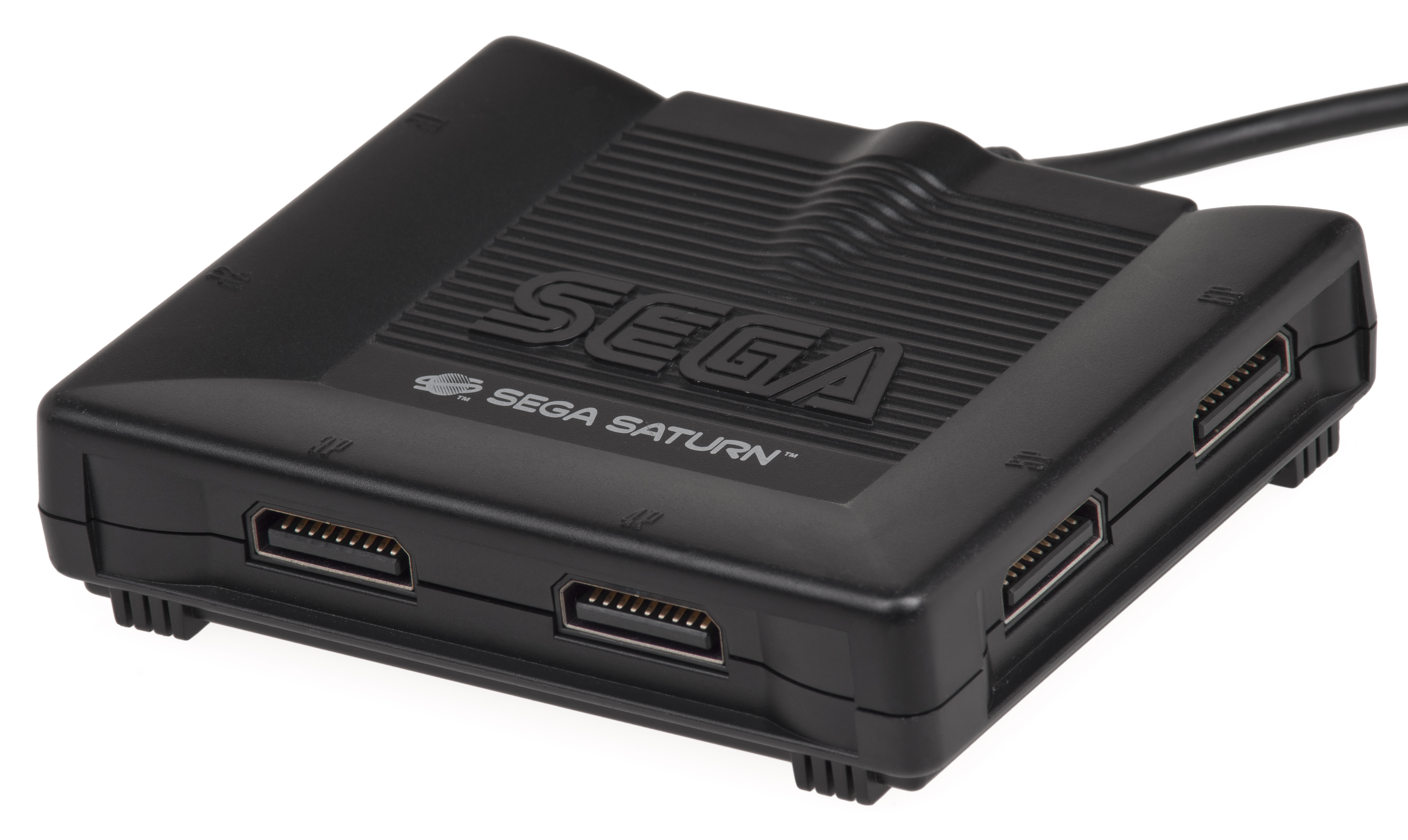 A Sega Saturn multitap, allowing for multiple people to play a game at once. I have no idea if anyone really used these things.